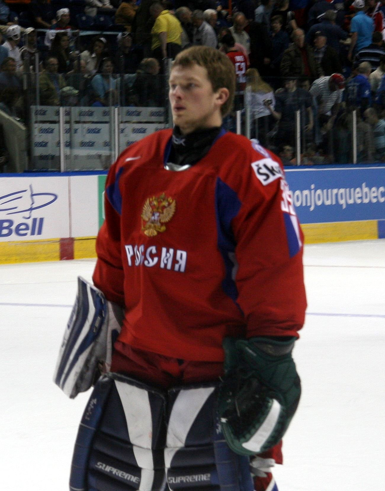 Mikhail Biryukov during the IIHF World Championship 2008